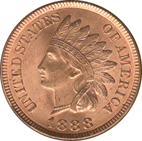 1888 Cent, Indian Head, Obverse